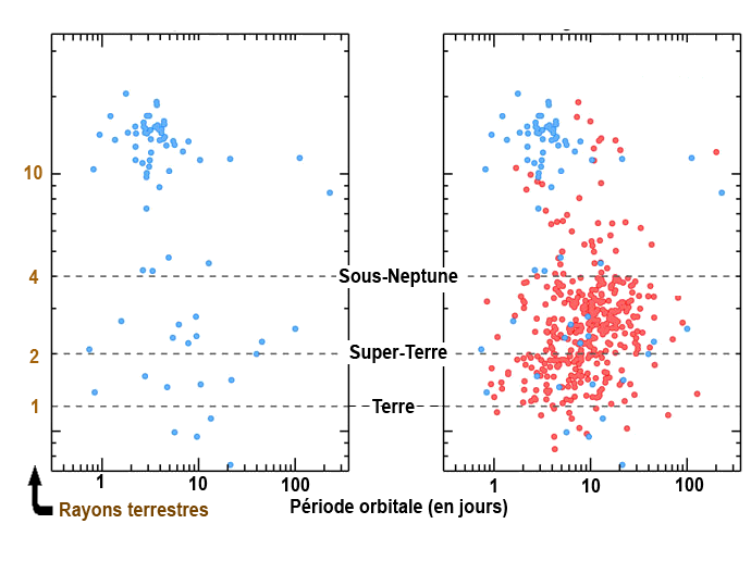 Sizes and orbital periods of planets with host stars brighter than J = 10. Left.| Currently known planets, including those from the Kepler and CoRoT missions as well as ground-based surveys. Right.| Figure on the left now including the simulated population of TESS exoplanet detections.